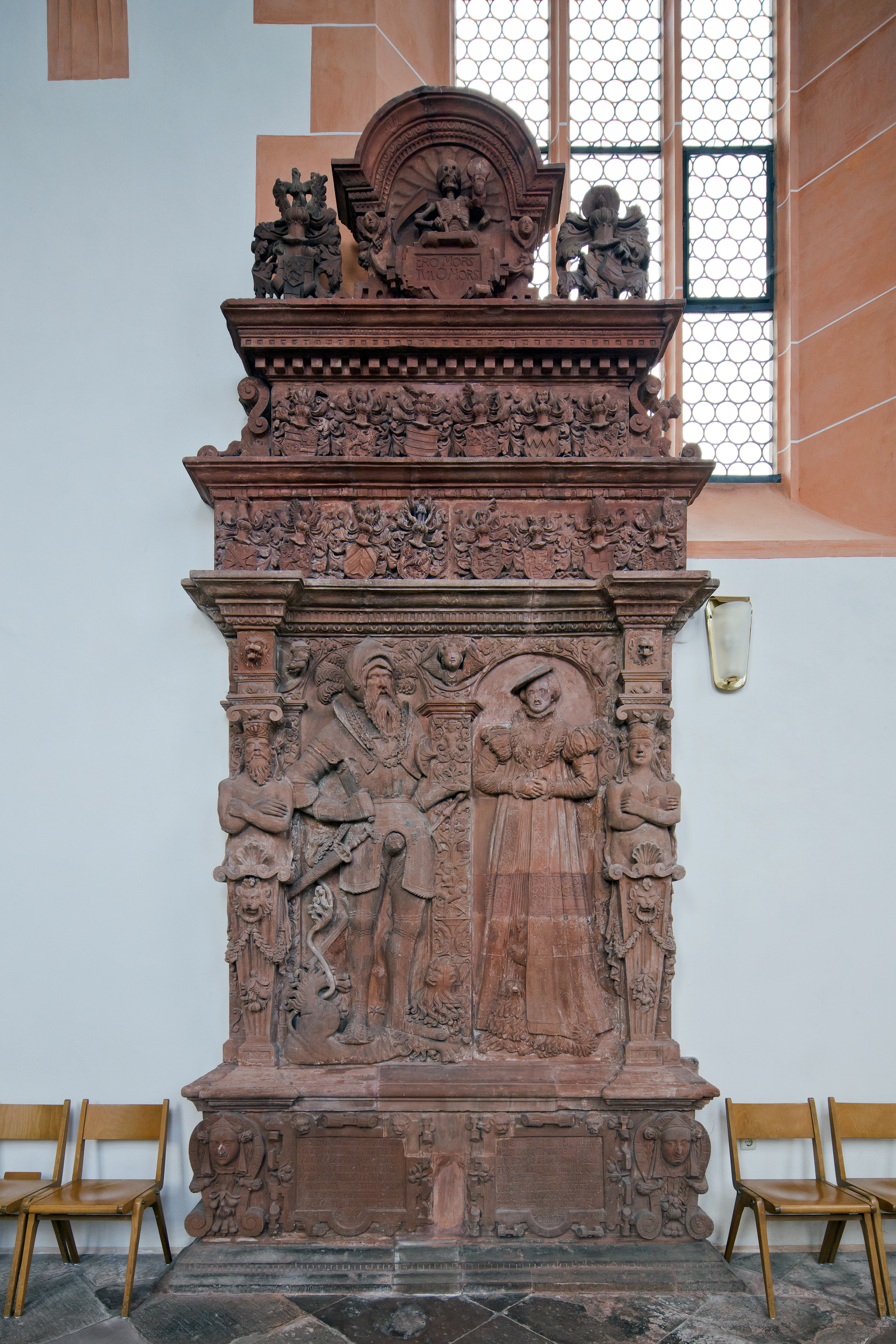 Büdingen: Marienkirche (St. Mary's Church), funerary monument of the interior of Count Anton I. of Ysenburg-Ronneburg and his wife Elisabeth of Wied